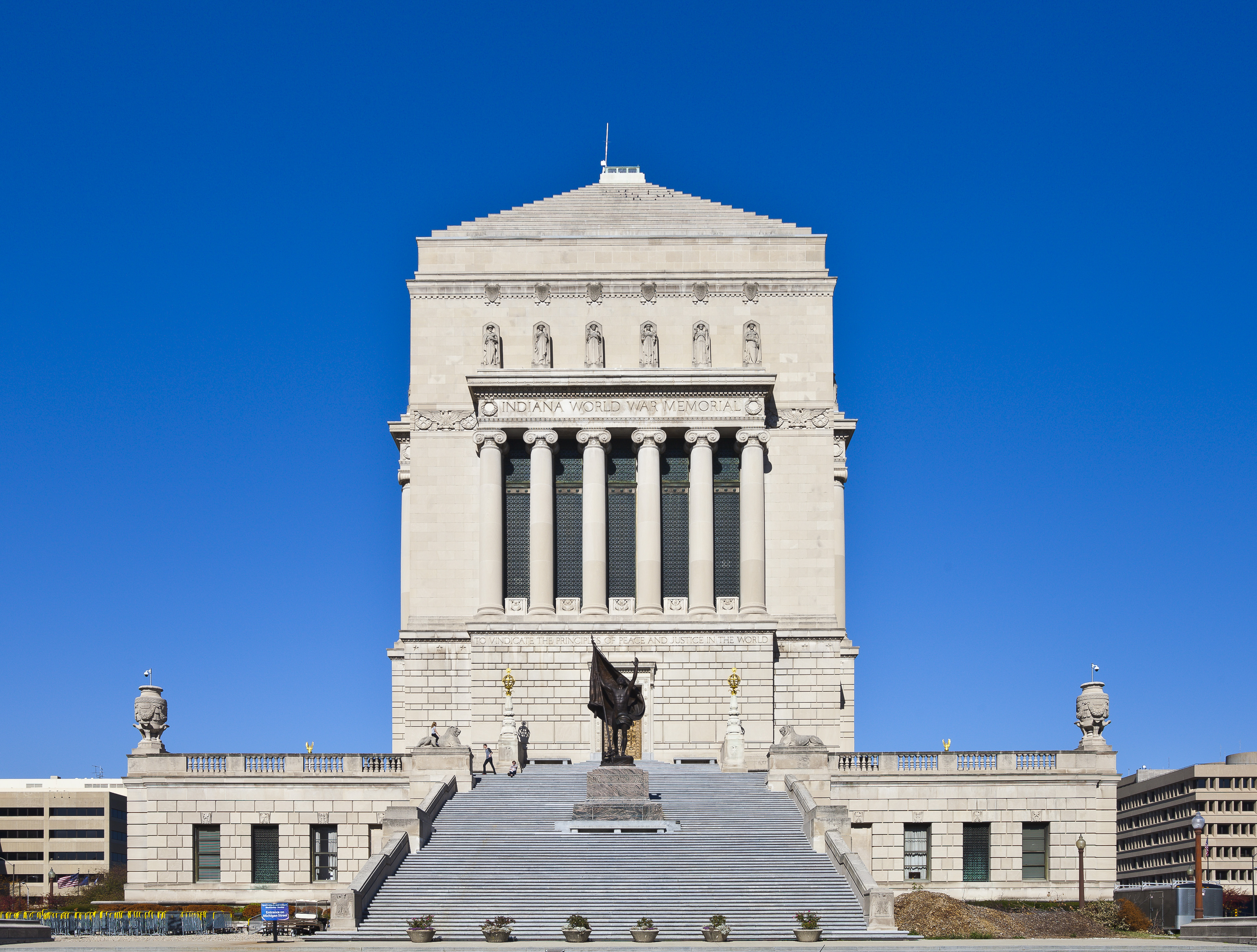 Indiana World War Memorial Building, Indianapolis, USA